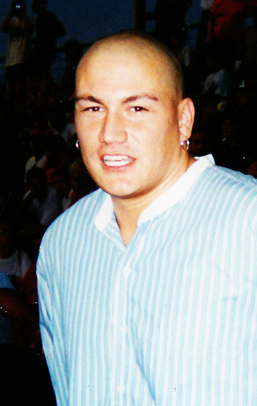 Litefoot (Cherokee Nation/Chichimeca) rapper and actor, at the Cherokee National Holiday Powwow, Sequoyah High School grounds, Tahlequah, Oklahoma, 1995